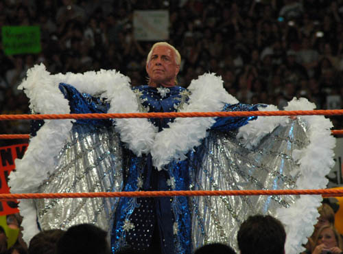 Ric Flair at WrestleMania 24